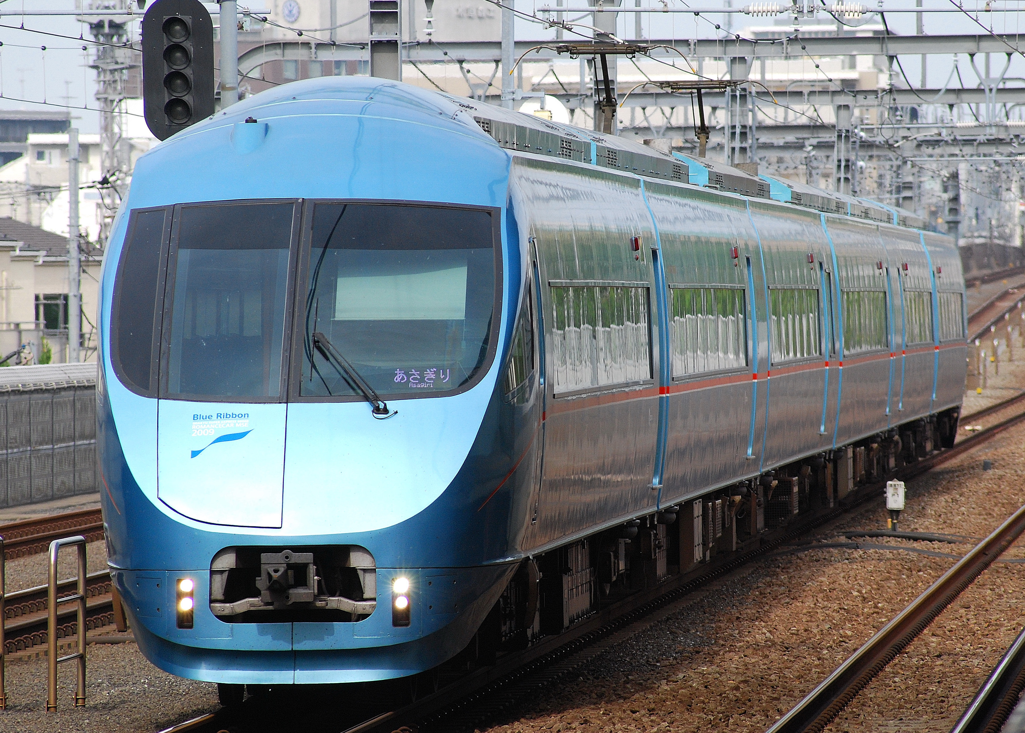 Odakyu 60000 series "MSE" EMU on an Asagiri service passing Soshigaya-Ōkura Station